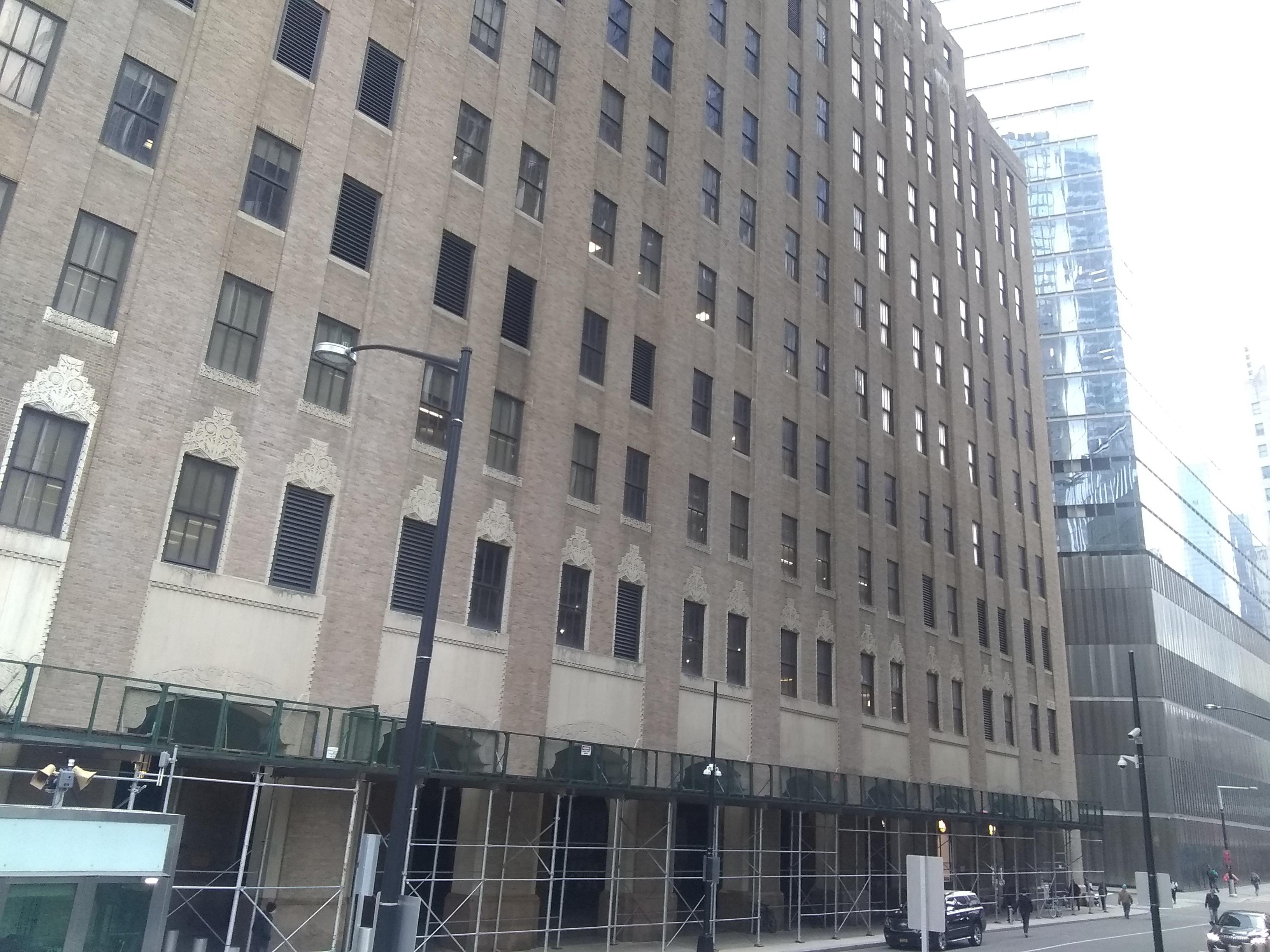 The Verizon Building in Manhattan, New York, in March 2020